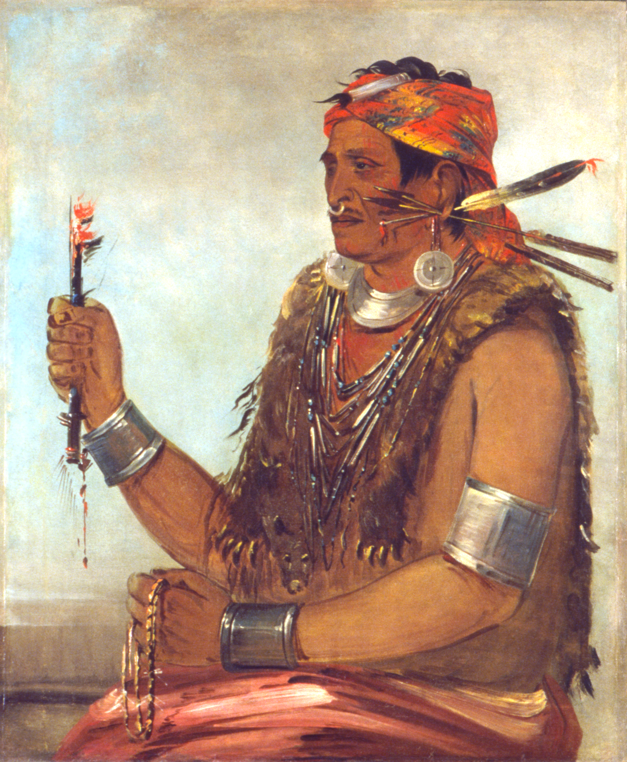 Ten-sqúat-a-way, The Open Door, Known as The Prophet, Brother of Tecumseh. “The ‘Shawnee Prophet,’ is perhaps one of the most remarkable men, who has flourished on these frontiers for some time past. This man is brother of the famous Tecumseh, and quite equal in his medicines or mysteries, to what his brother was in arms; he was blind in his right eye, and in his right hand he was holding his ‘medicine fire,’ and his ‘sacred string of beads’ in the other. With these mysteries he made his way through most of the North Western tribes, enlisting warriors wherever he went, to assist Tecumseh in effecting his great scheme, of forming a confederacy of all the Indians on the frontier, to drive back the whites and defend the Indians’ rights; which he told them could never in any other way be protected . . . [he] had actually enlisted some eight or ten thousand, who were sworn to follow him home; and in a few days would have been on their way with him, had not a couple of his political enemies from his own tribe... defeated his plans, by pronouncing him an imposter . . . This, no doubt, has been a very shrewd and influential man, but circumstances have destroyed him . . . and he now lives respected, but silent and melancholy in his tribe.” Records show that the Prophet was living west of the Mississippi by 1830, which suggests that Catlin painted this portrait at Fort Leavenworth (in today’s Kansas) on his earliest journey to the West. (Catlin, Letters and Notes, vol. 2, no. 49, 1841, reprint 1973; Truettner, The Natural Man Observed, 1979)